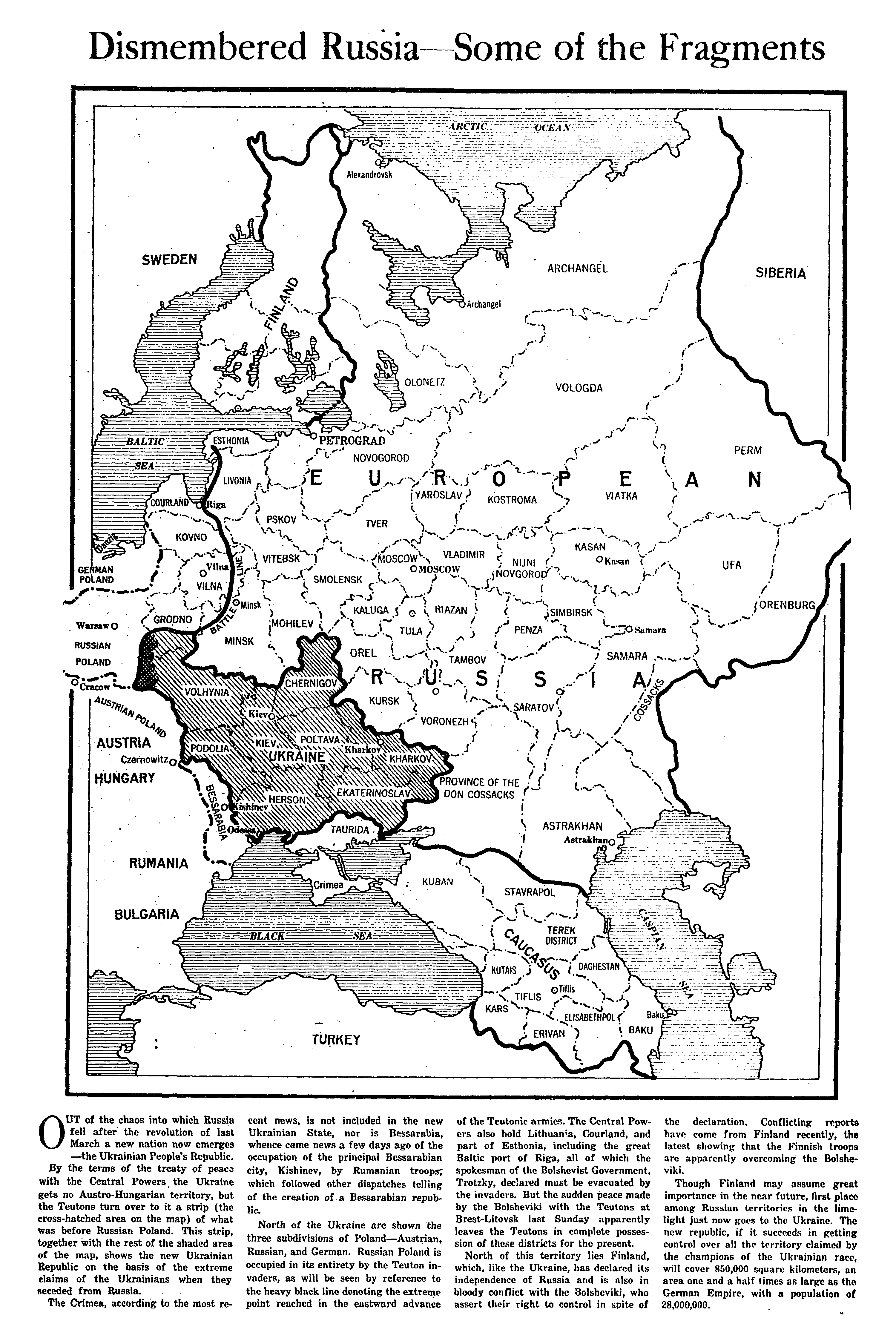 Article from the The New York Times published at the end of World War I showing the provisional boundaries of the Ukrainian People’s Republic emerged from the collapsed Russian Empire, later incorporated into the Soviet Union in 1922. From the 1851-1980 NYT Archives.